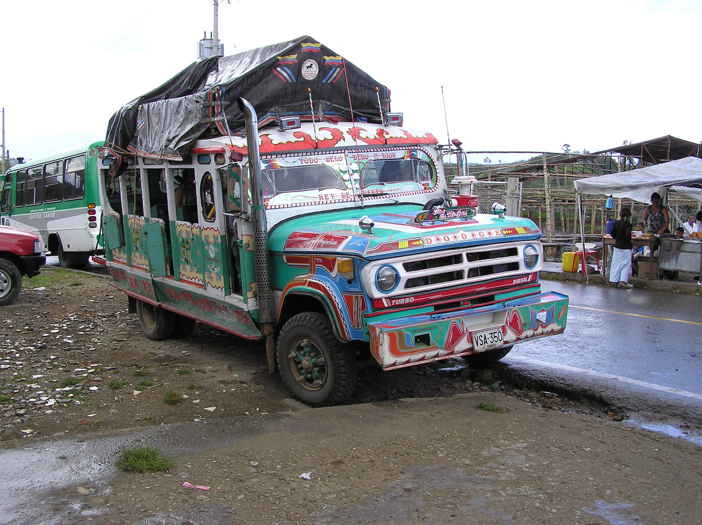 Chiva bus in Colombia.